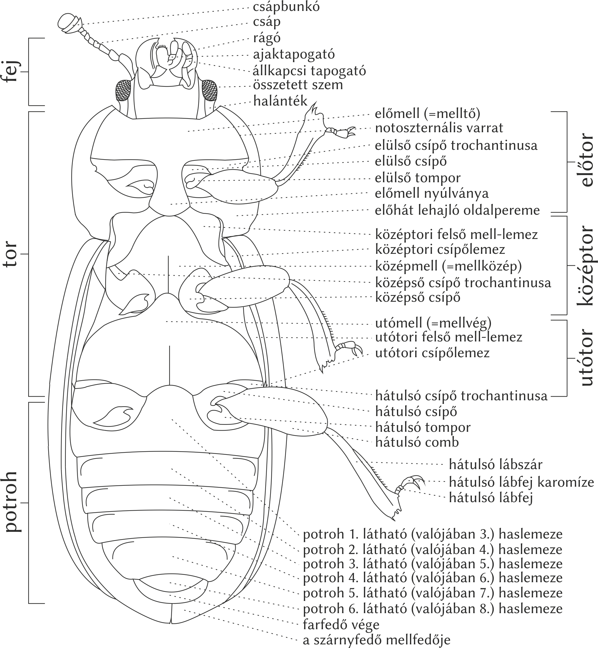 Detailed beetle mophology; underside. References: Paolo Audisio: Fénybogarak in Magyarország Állatvilága ; Merkl, Vig: Bogarak a Pannon régióban.